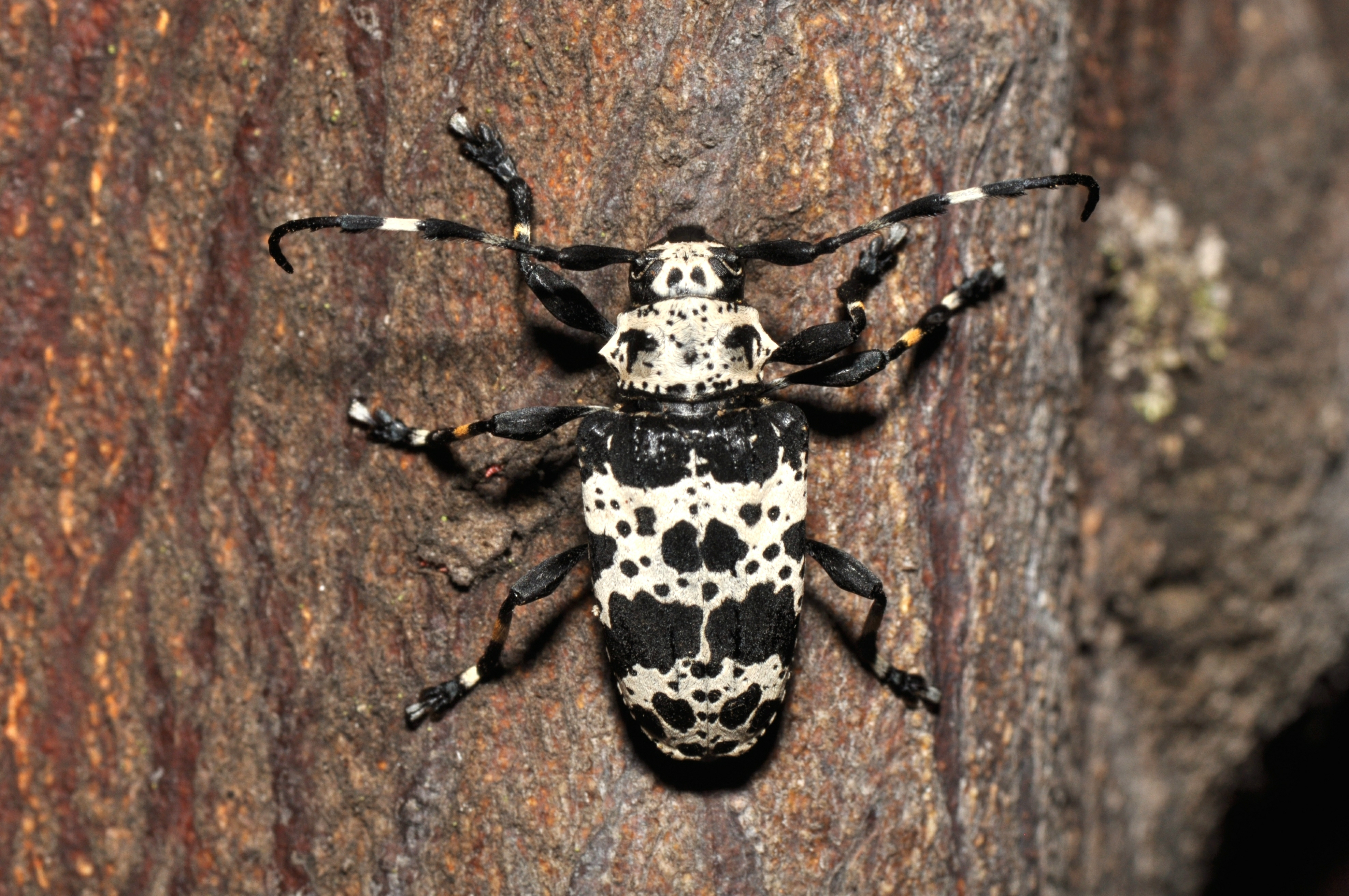 Found on a lemon tree Thanks to Bernard Dupont for ID